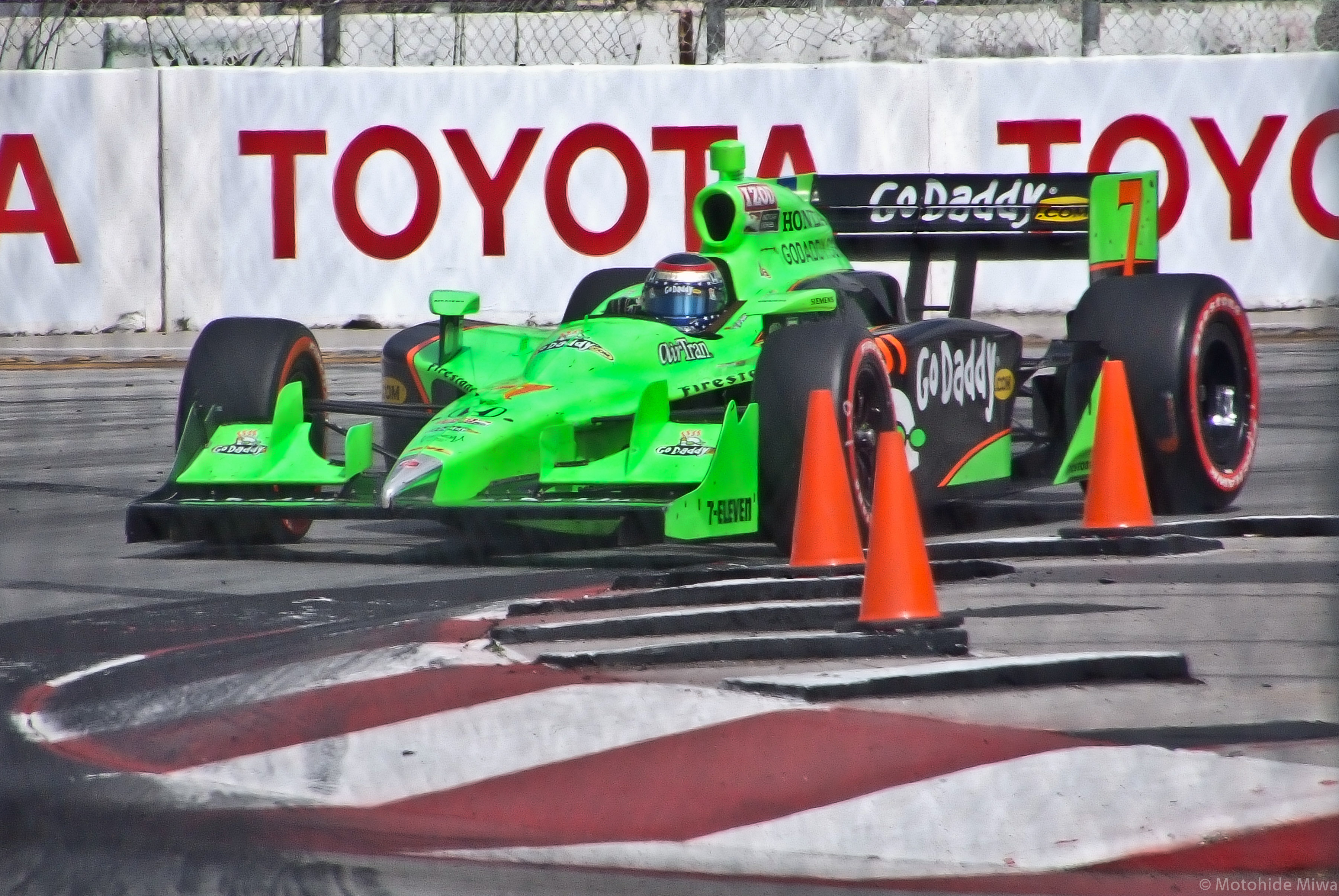 Danica Patrick, Turn 1 - Team Andretti GoDaddy Powered by Honda